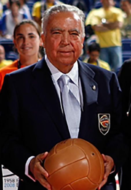 Pedro Ferrandiz